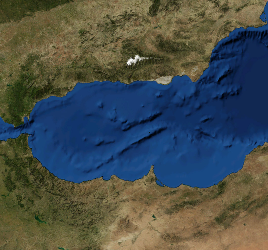 Satellite Picture of the Alboran Sea